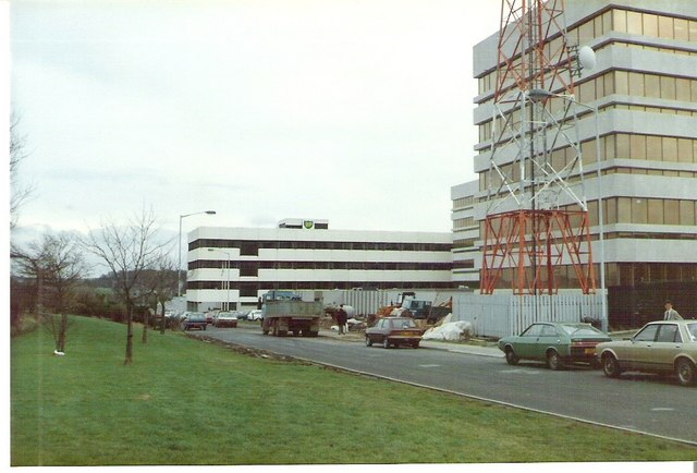 BP Petroleum Development Ltd Offices (1985) Dyce Headquarters for North Sea operations being extended in the mid-80s.